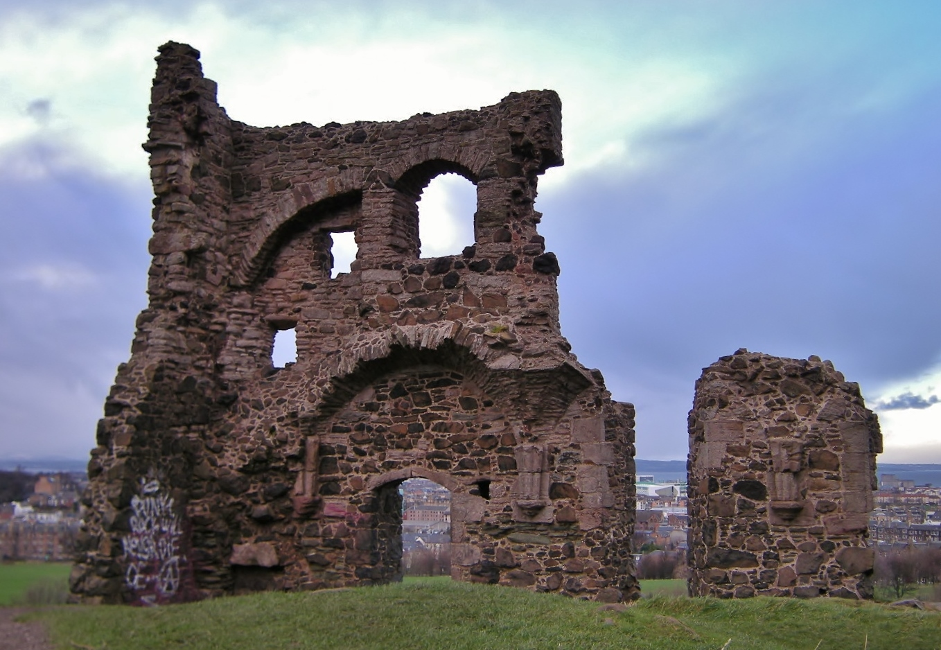 Close up photograph of St Anthony's Chapel on Arthur's Seat in Edinburgh.